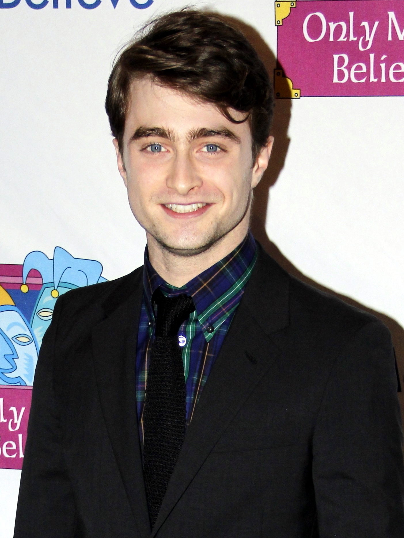 Daniel Radcliffe at the Make Believe On Broadway 2011, New York City.